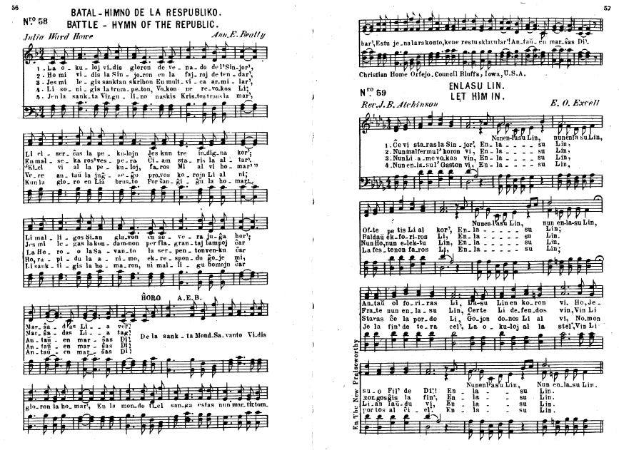 PNG of two songs based on a PDF scanned from a ca. 1920 hymnal